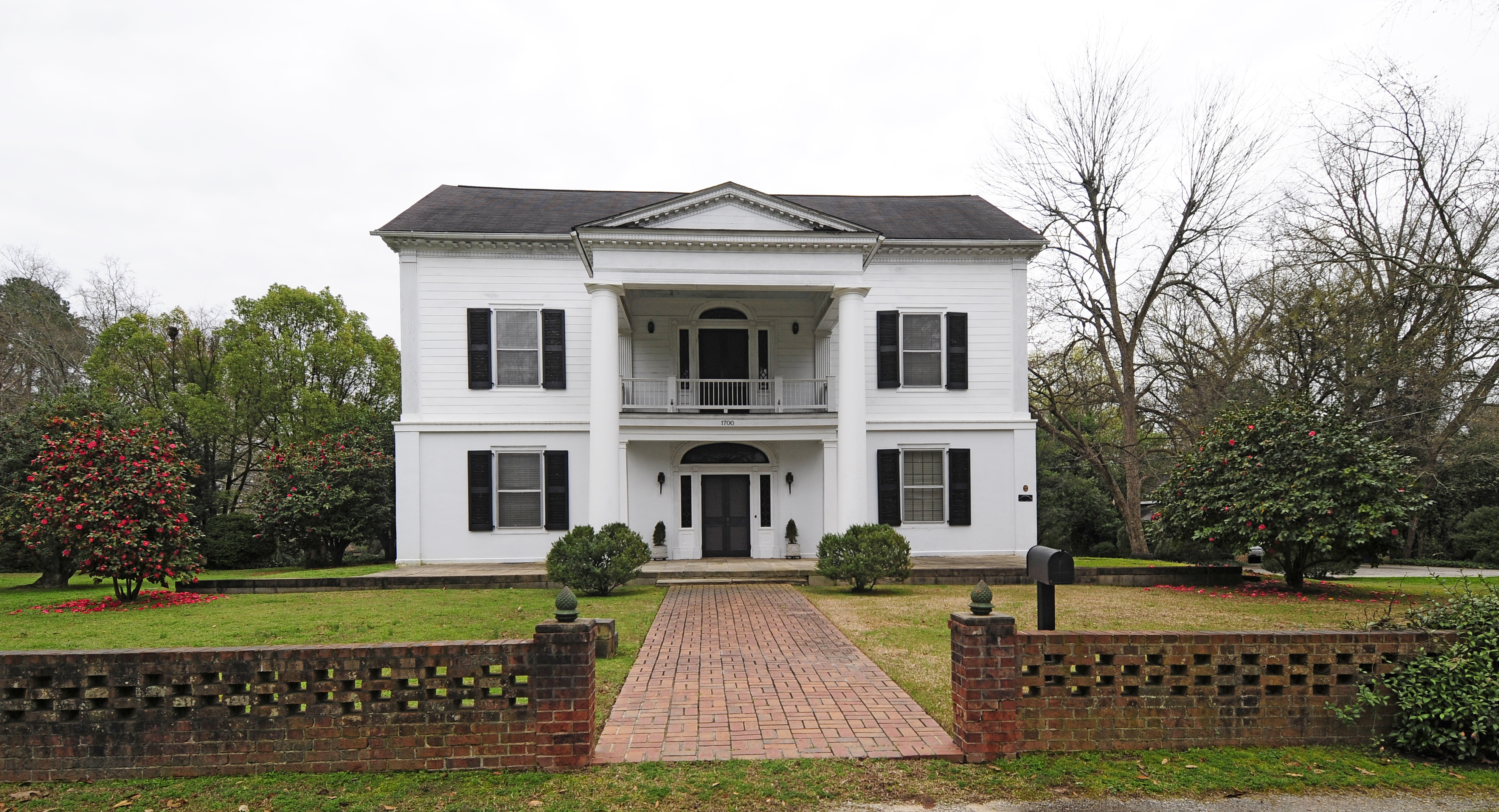 Coateswood